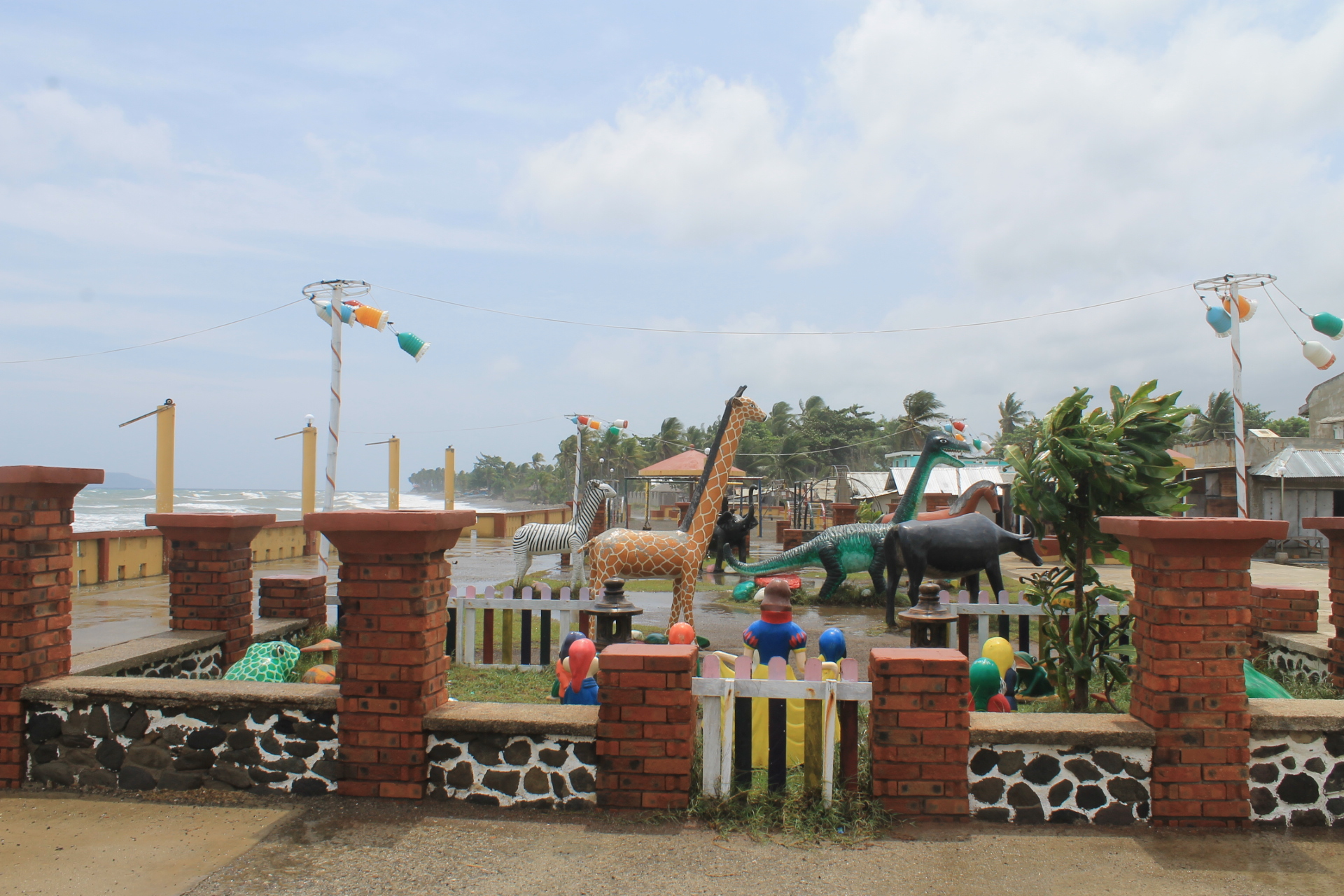 Baywalk Park of this town.